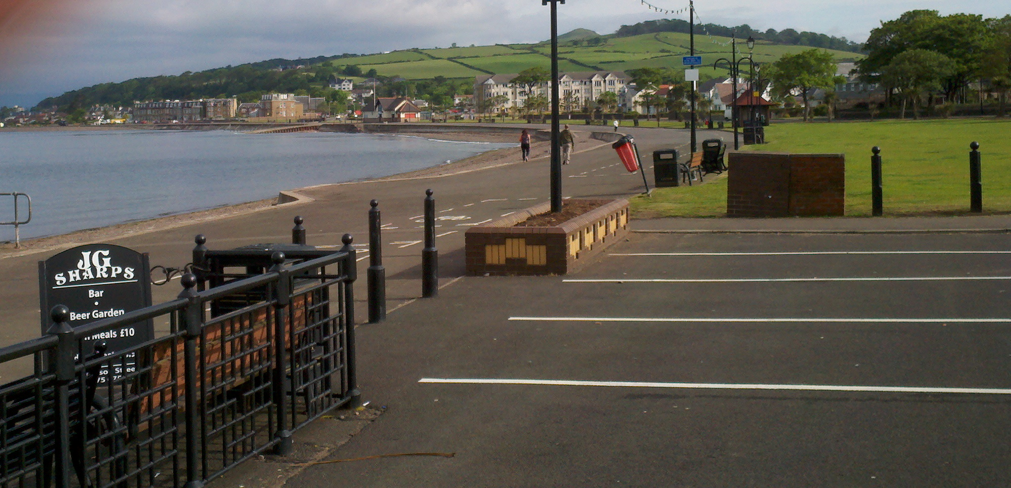 Ayrshire coast at Largs, Scotland looking north. Image taken at 08:46 hrs on Friday, 1st June 2012.